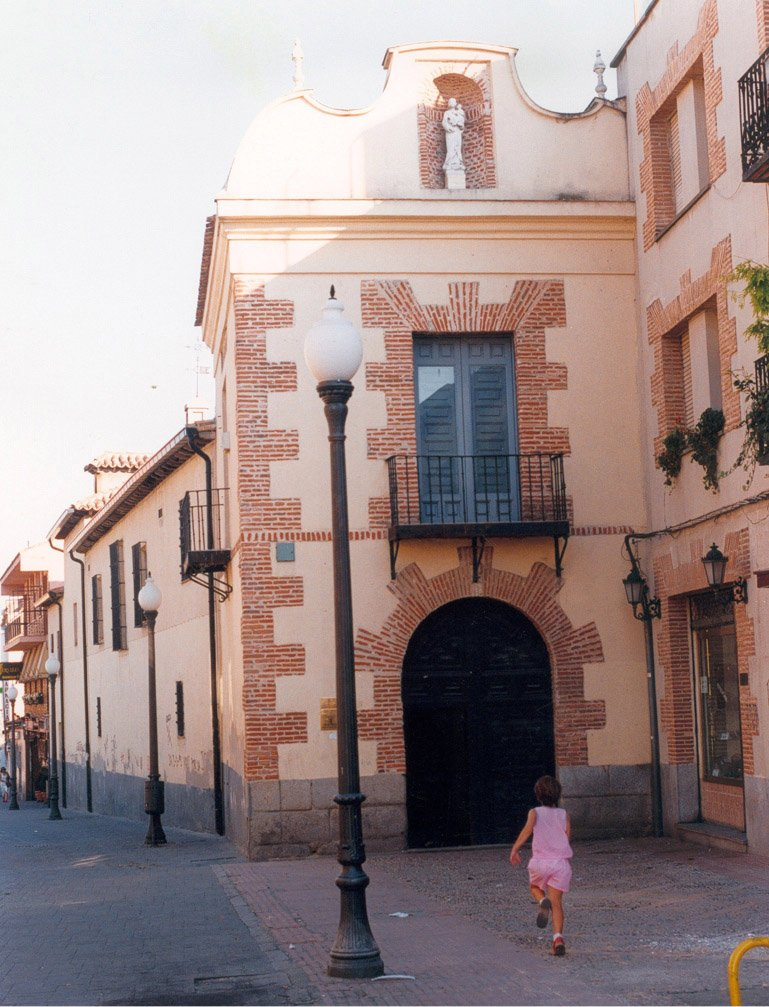 Hospital of San Jose, Getafe, (Madrid), Spain Author: Miguel303xm Date: June 22nd, 2005 Place: Hospital of San Jose, Getafe, Madrid, Spain